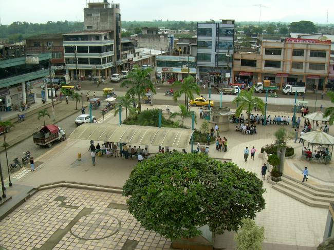 Cebuano: Central Park of La Maná city